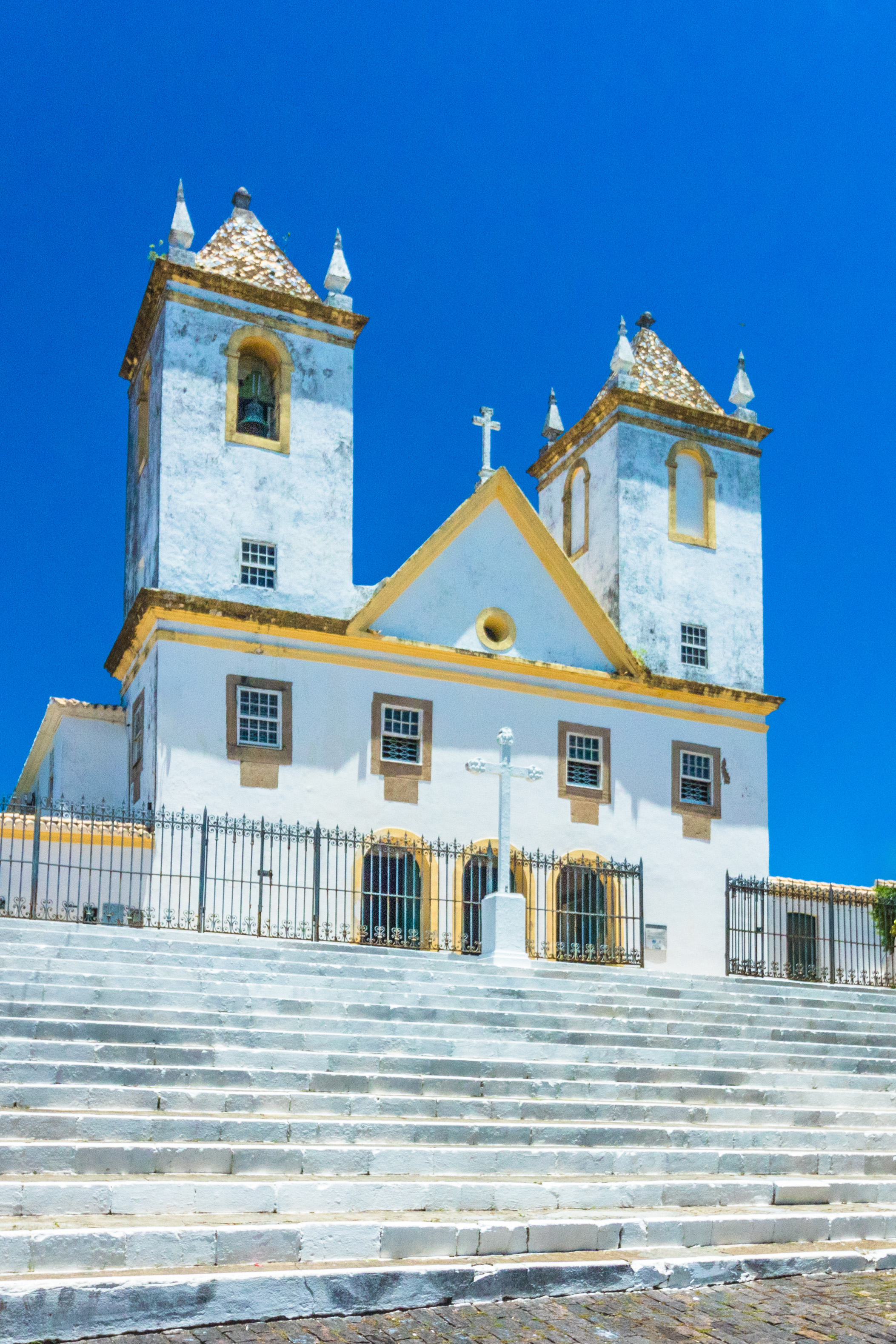 Igreja de Santo Antônio da Barra, Praça Santo Antônio da Barra, Barra, Salvador, Bahia, Brazil.